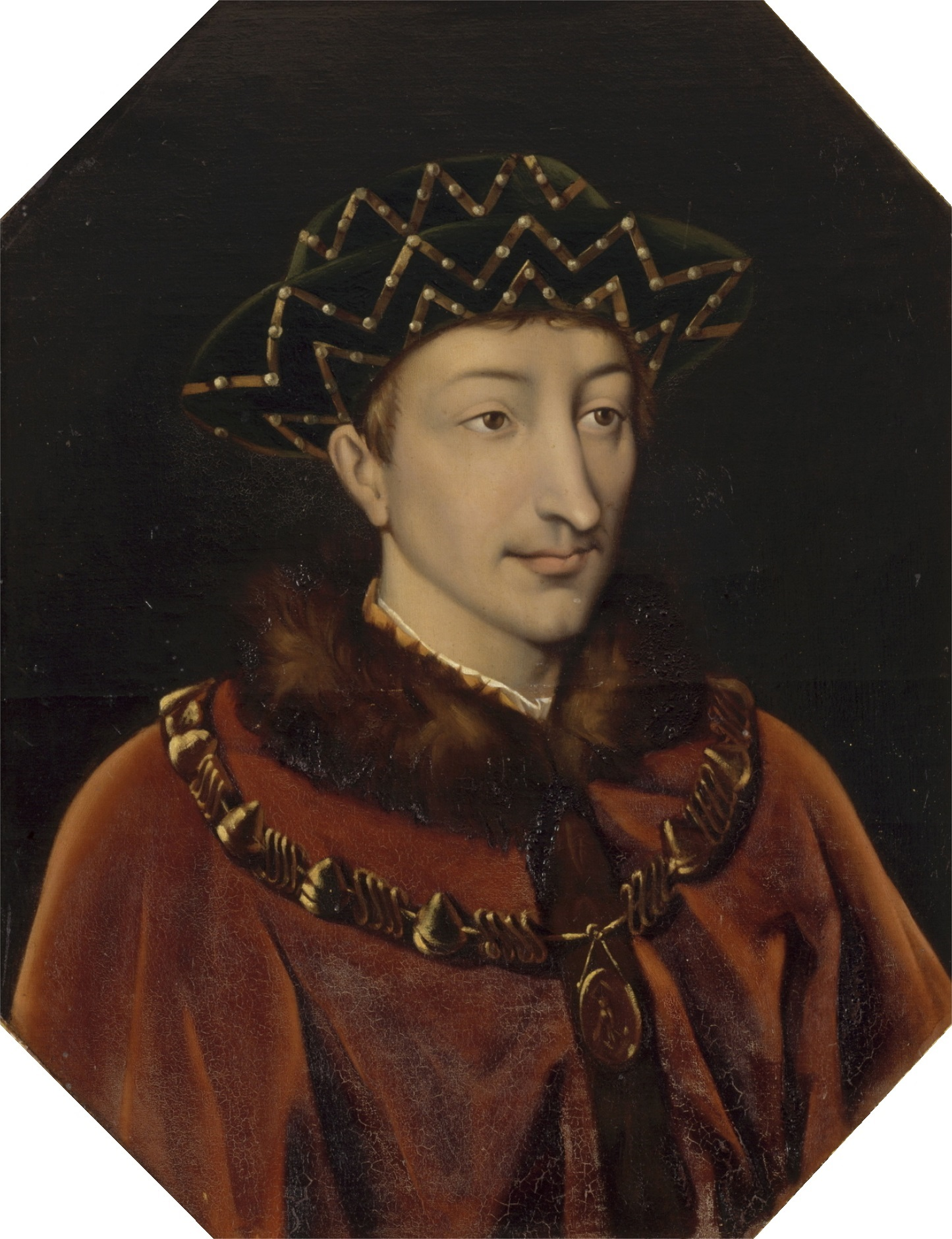 This painting belongs to the Portraits of Kings of France, a series of portraits commissioned between 1837 and 1838 by Louis Philippe I and painted by various artists for the Musée historique de Versailles.